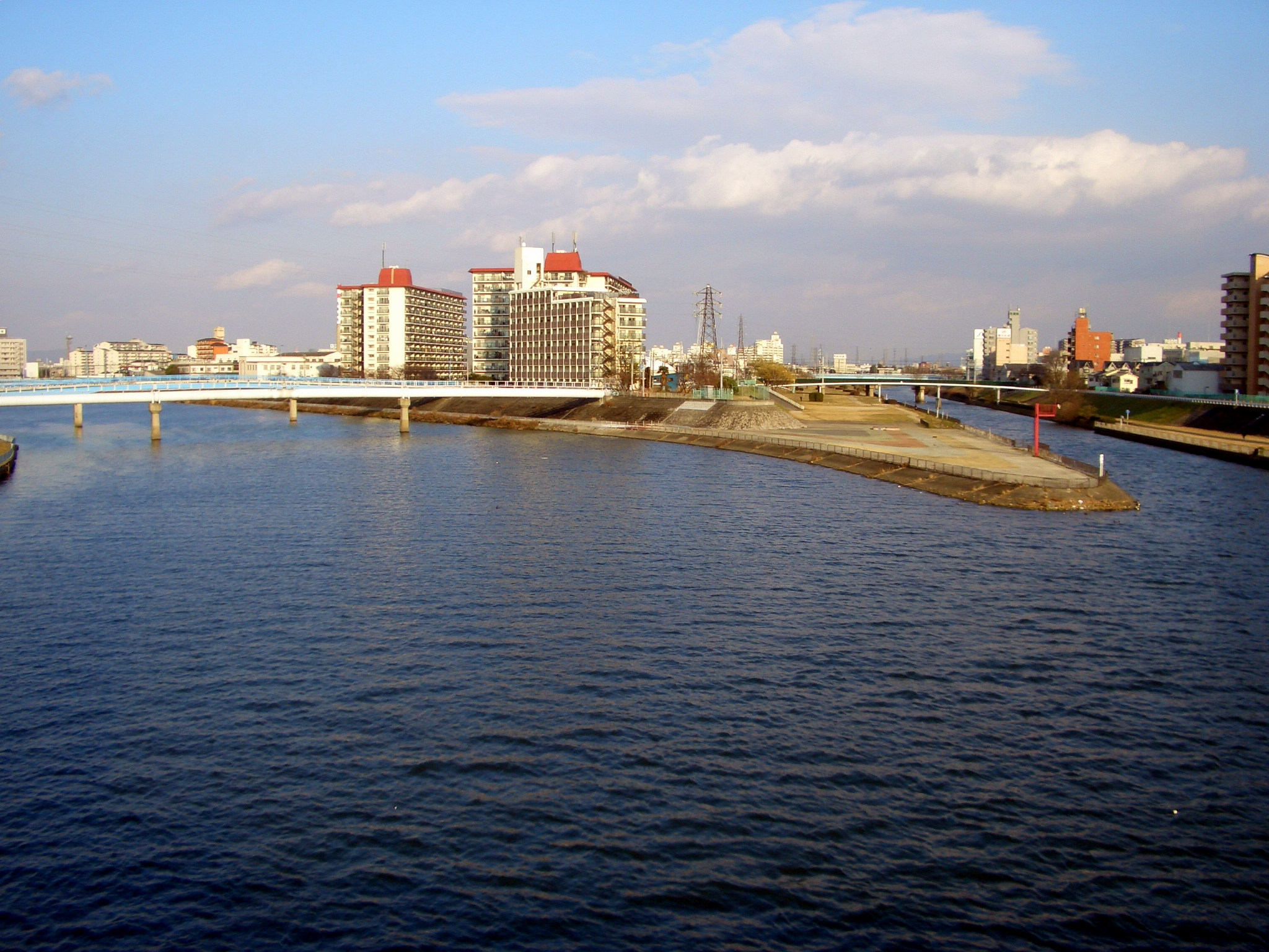 Confluence of the River kannzaki and River ai in Suita city,Osaka,Japan. 神崎川と安威川の合流点。